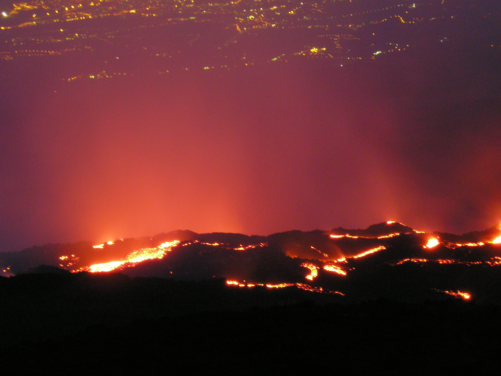 Lava streams in the Valle del Bove on Mount Etna